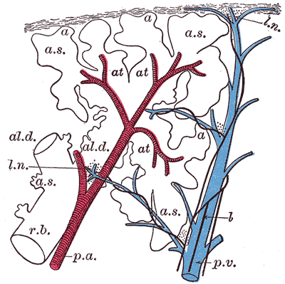 Schematic longitudinal section of a primary lobule of the lung (anatomical unit); r. b., respiratory bronchiole; al. d., alveolar duct; at., atria; a. s., alveolar sac; a, alveolus or air cell; p. a.: pulmonary artery: p. v., pulmonary vein; l., lymphatic; l. n., lymph node. (Miller.)